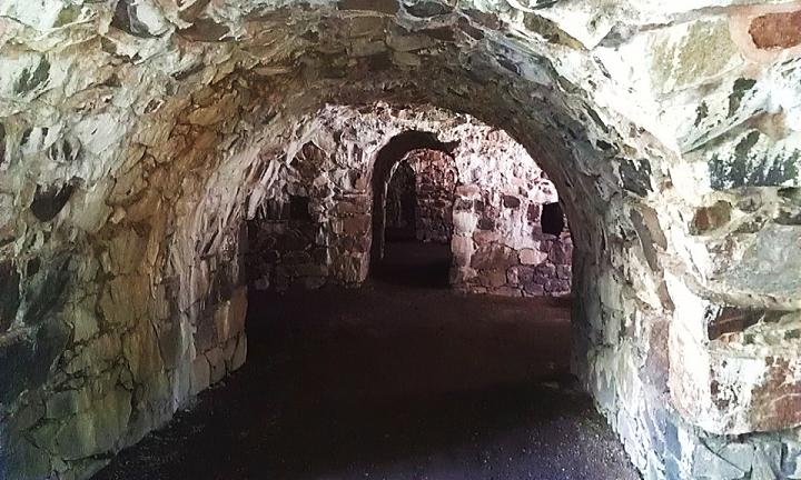 The fortified tunnels at Suomenlinna.